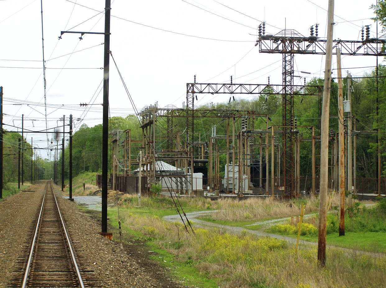 Former Pennsylvania Railroad electric substation at Frazer, Pennsylvania on the Philadelphia to Harrisburg Main Line. Currently part of Amtrak's 25 Hz Traction Power System.